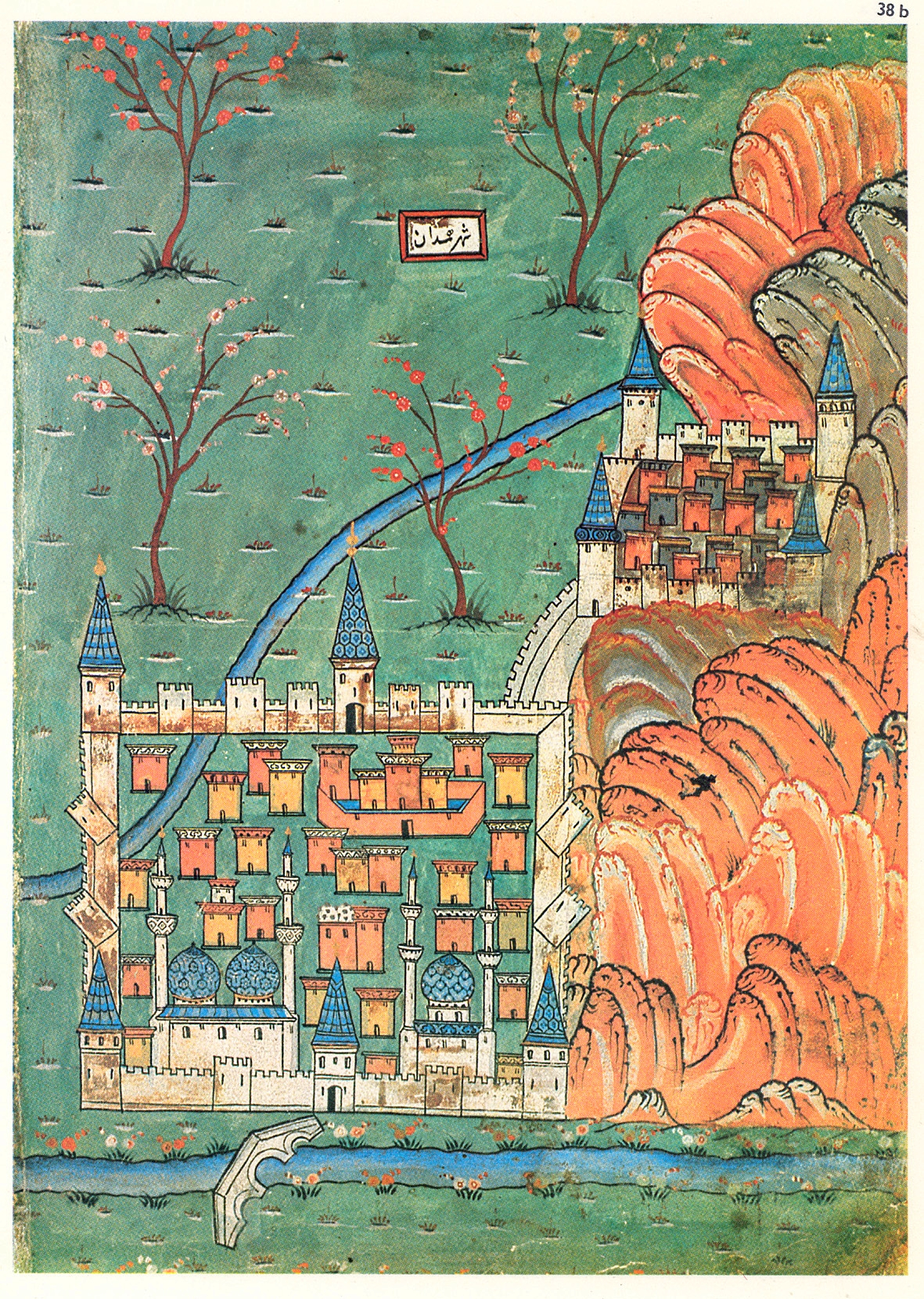 16th century map of Hamedan, Iran